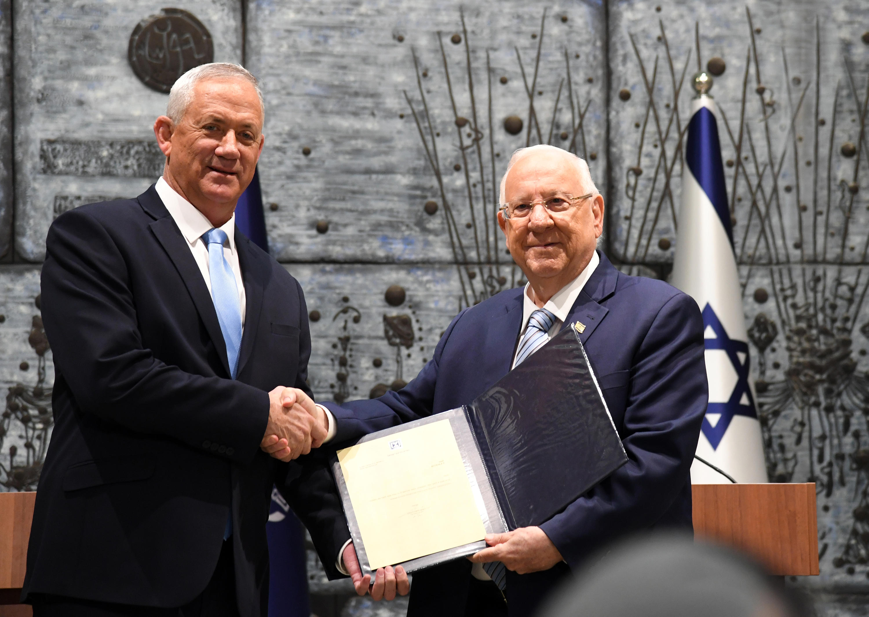 The President of Israel, Reuven Rivlin tasking Beni Gantz with forming the Thirty-fifth government of Israel. Wednesday, October 23, 2019. Credit Photo: Haim Zach / GPO.